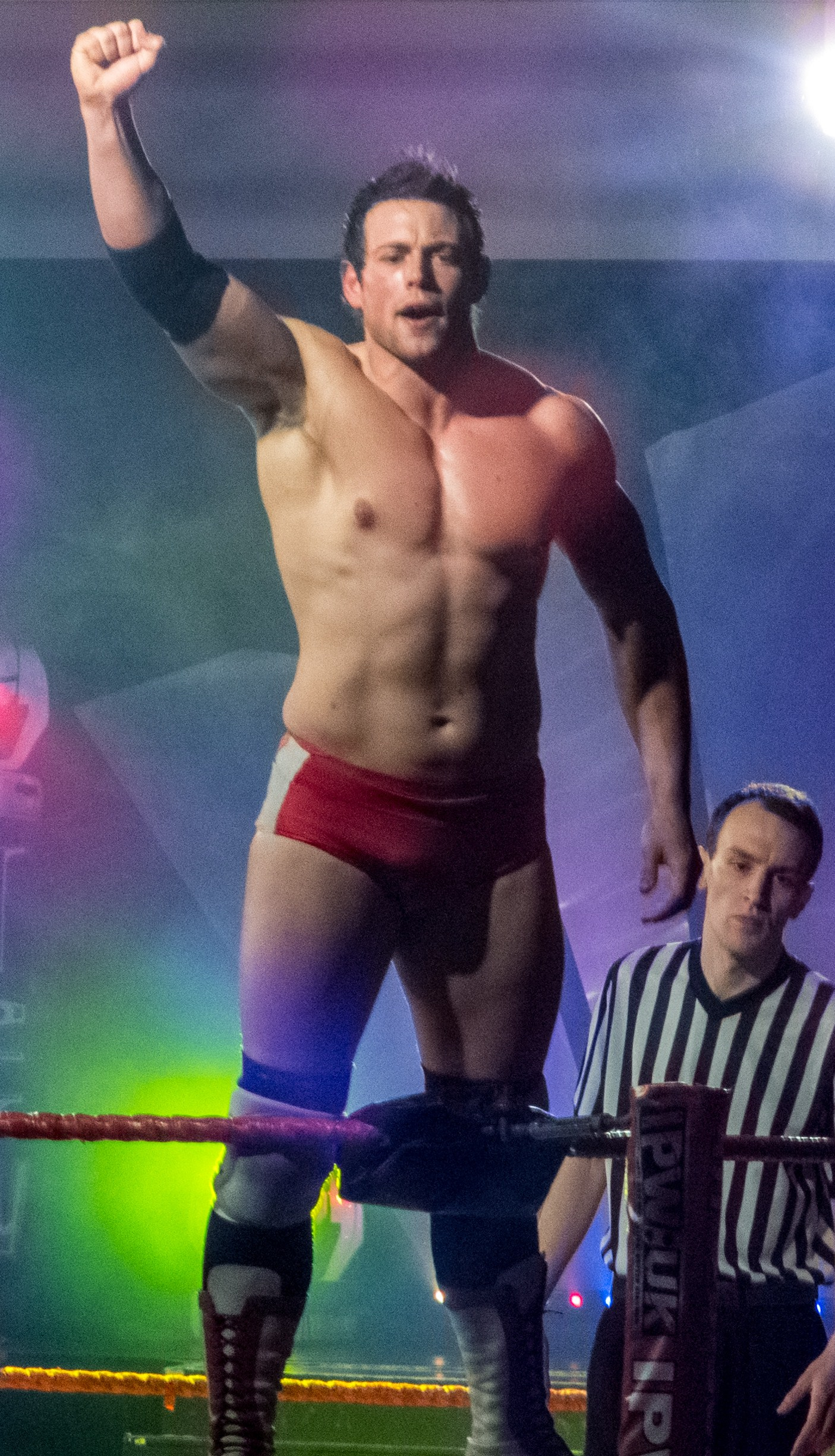 Professional wrestler Joel Redman at IPW:UK's Revolution show in April 2012.